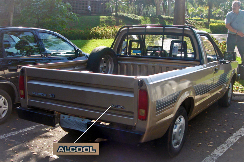 Ford Pampa 1.6 Alcool pickup truck, a Brazilian neat ethanol (pure hydrous alcohol) vehicle still in use. Piracicaba, Sao Paulo state, Brazil.